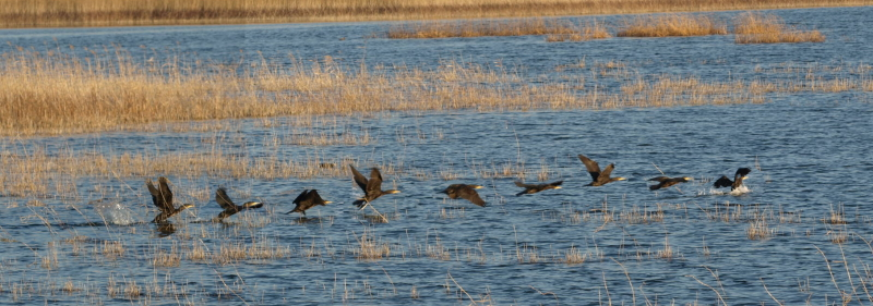 Phalacrocorax carbo in Pitillas lake in Navarre.